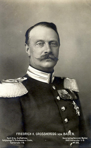 Grand Duke Frederick II of Baden (1857–1928), wearing the Uniform of His Life Grenadiers (109th in the Royal Prussian Army)